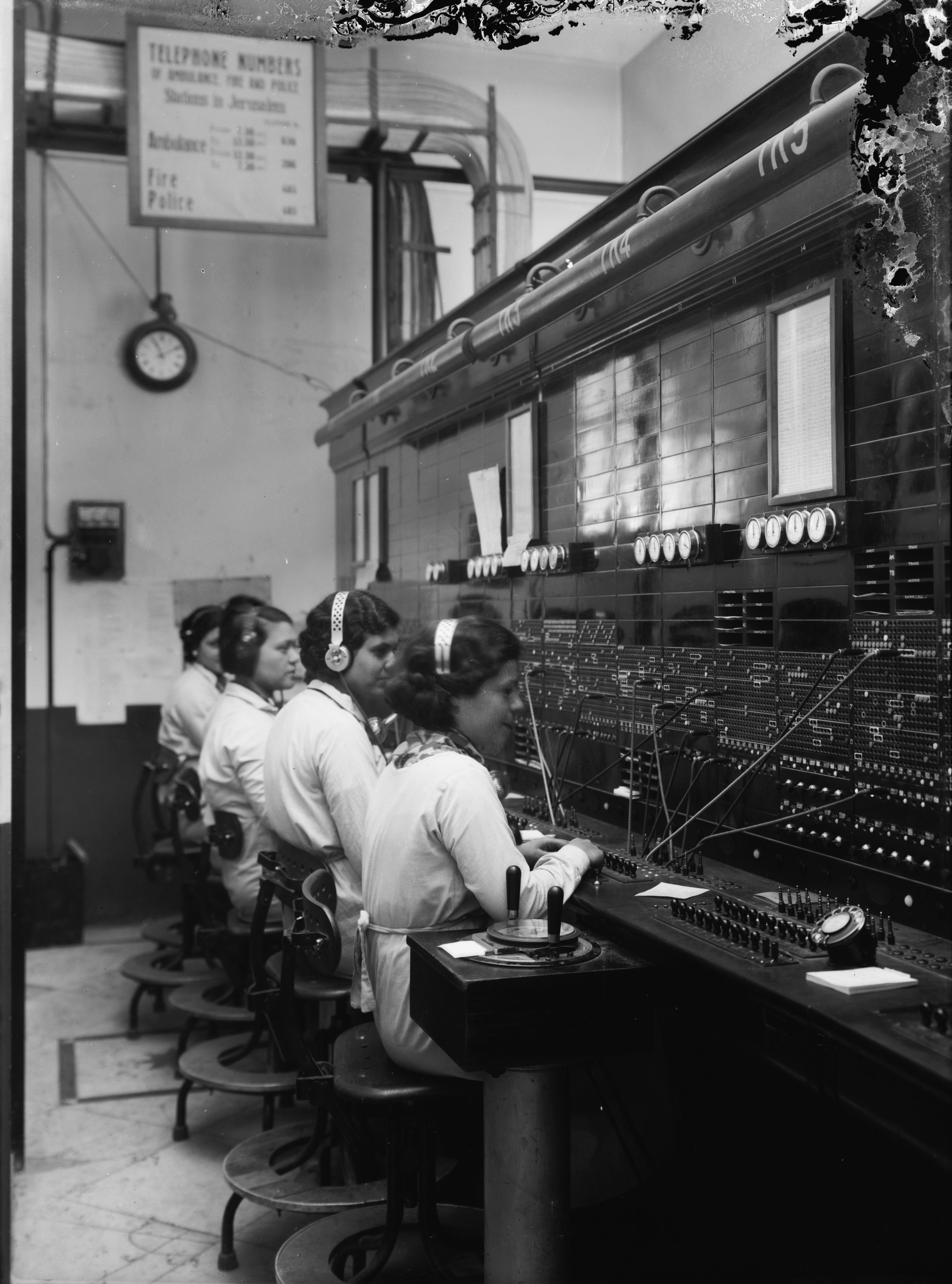 Title: 4 women at tel. [i.e., telephone] switchboard Abstract/medium: G. Eric and Edith Matson Photograph Collection Physical description: 1 negative